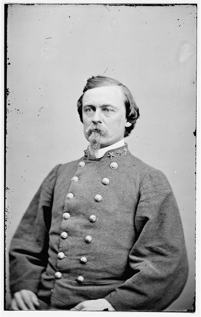 A portrait of Brigadier General Joseph Finegan seated and in uniform. Library of Congress, Civil War photographs, 1861-1865 / compiled by Hirst D. Milhollen and Donald H. Mugridge